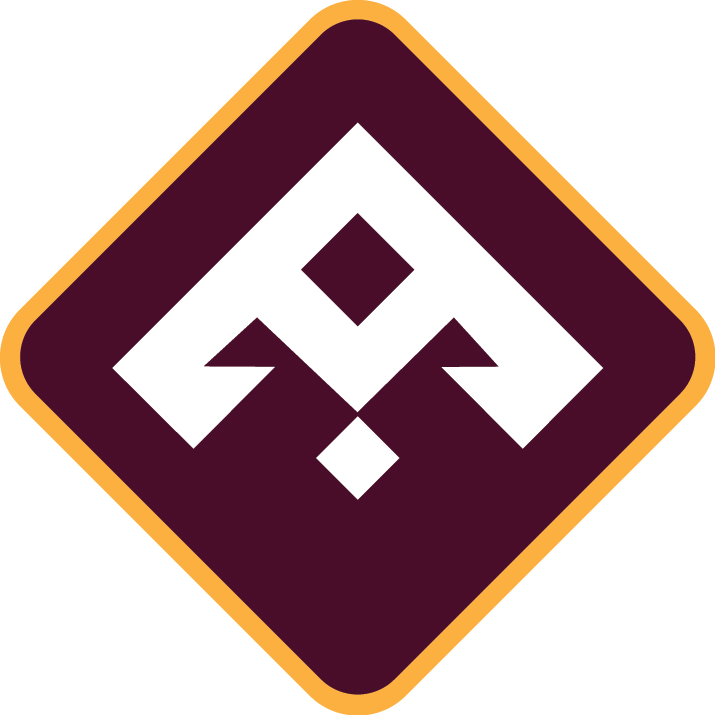 Logo of "Azerkhalcha" Open-Joint Stock Company